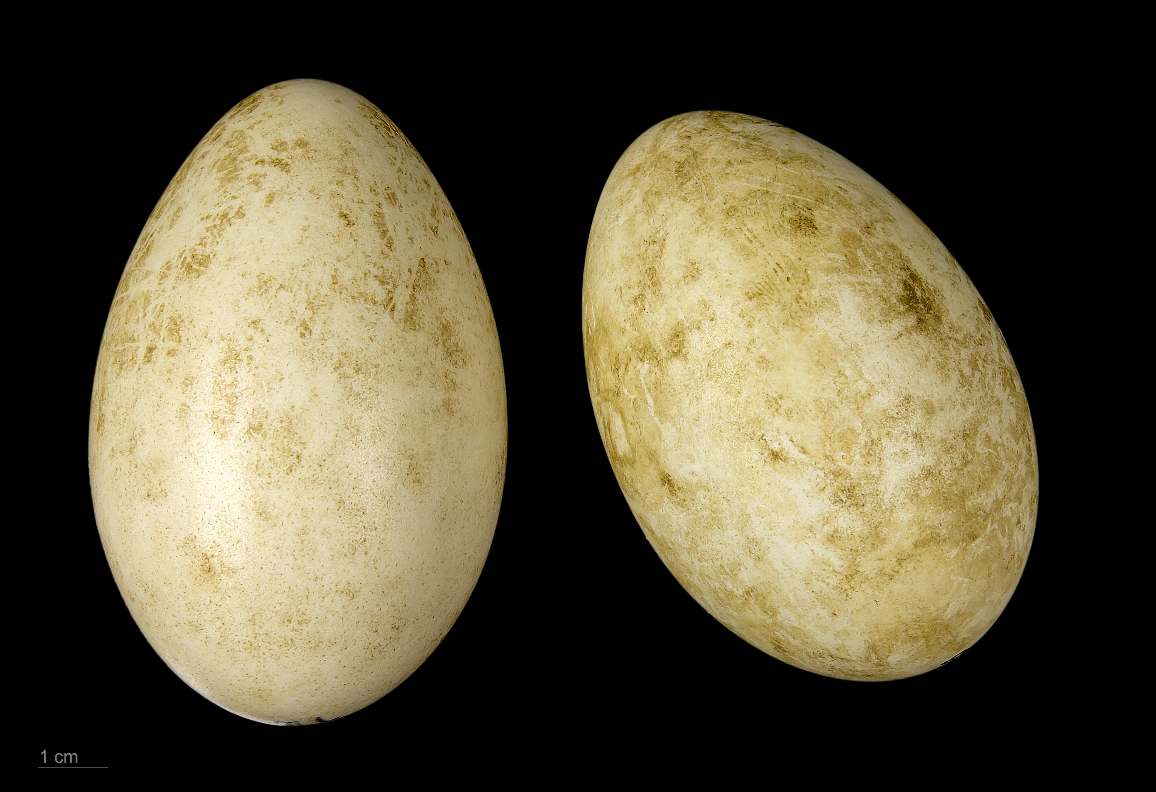 Egg of bar-headed goose Collection of Jacques Perrin de Brichambaut.